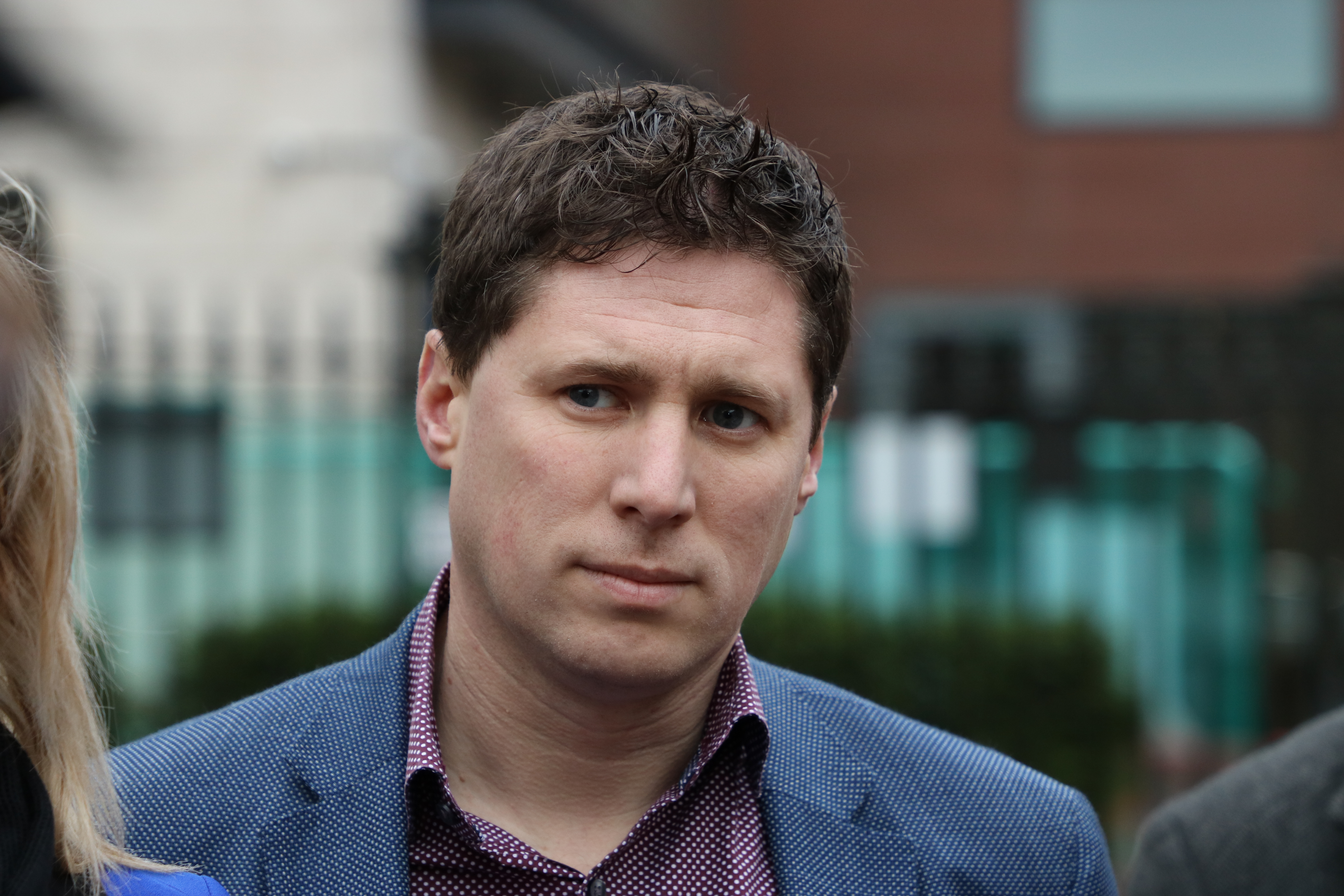 Matt Carthy MEP